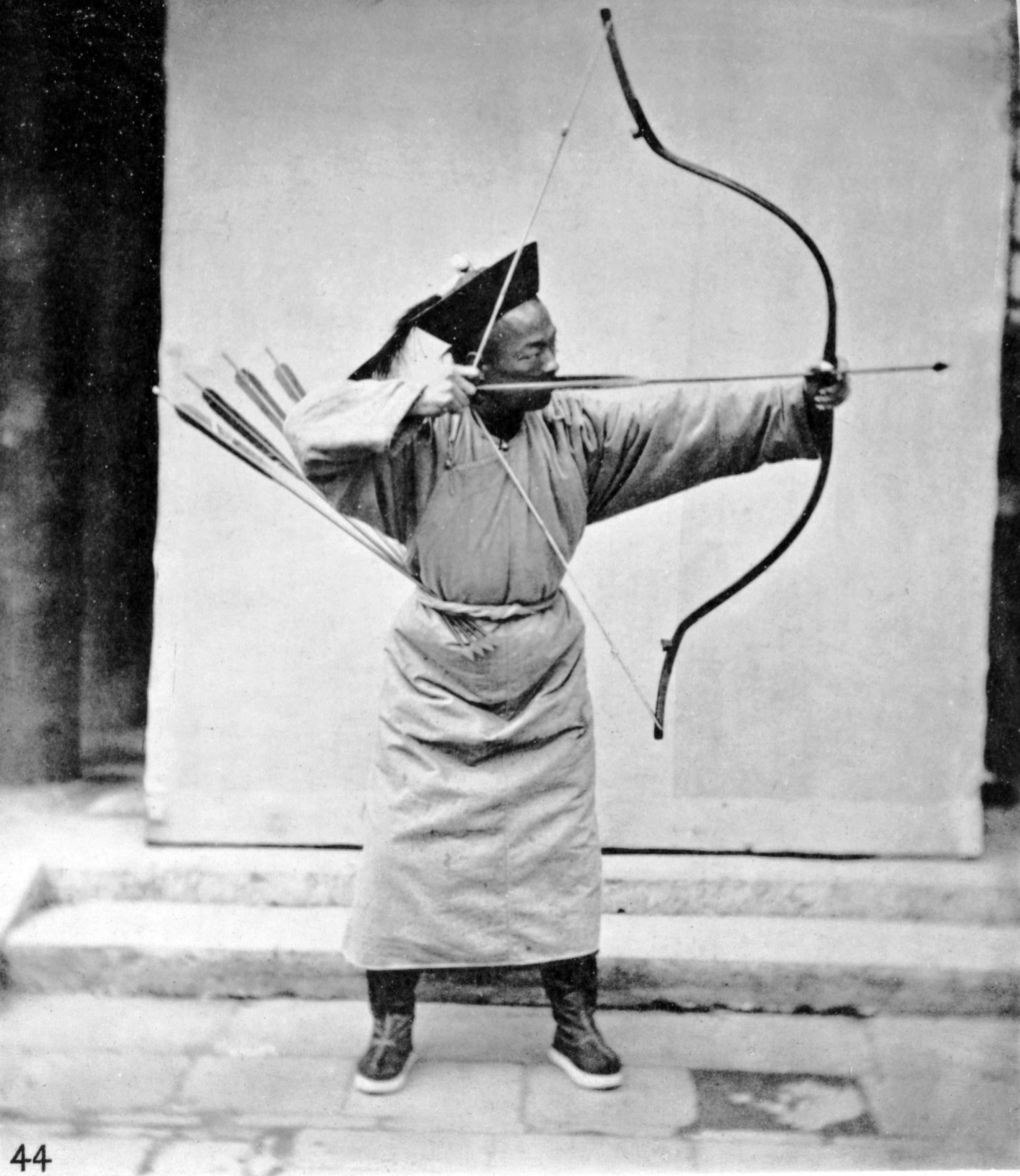 John Thomson: I HAVE already had a good deal to say in these pages about Chinese soldiers, and about the weapons which they use in modern times, but upon their military competitive examinations I have not yet touched. These examinations take place periodically in the chief cities of the Empire, and by their agency an incentive is held out to the soldier who, by his personal prowess and by his skill in the use of arms, may rise to the higher grades in the army. The Chinese, however, or rather the Manchus, notwithstanding the fact that the system which admits of promotion by prowess and skill is a good one, will have to remodel their military examinations, if they would maintain their ground against the nations that are growing up around them. The tests of bow and arrow and muscular power must become things of the past, and be replaced by tests of engineering knowledge, of the art of disciplining troops and marshalling them for the field of battle, and, indeed, of whatever we understand in Europe as the modern science of war. At present, in addition to exercise in the use of the old weapons, military candidates are required to write out a short treatise on Chinese military tactics. Nos. 43 and 44 are fair types of the Manchu soldiers of the north of China. On September 18, 1871, I witnessed the review of an army of men such as these on the plain that stretches away northwards outside the Art-ting gate of the Tartar city. Many of the troops assembled there were armed with bows and arrows, and many more with the old fuse matchlocks shown in No. 43, while in the belt a row of breech-loading cartridges was stored. The subject of No. 44 held military rank, and was also a dexterous marksman.